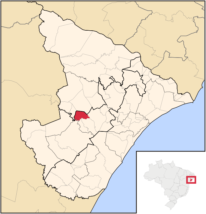 Map of Sergipe highlighting Macambira